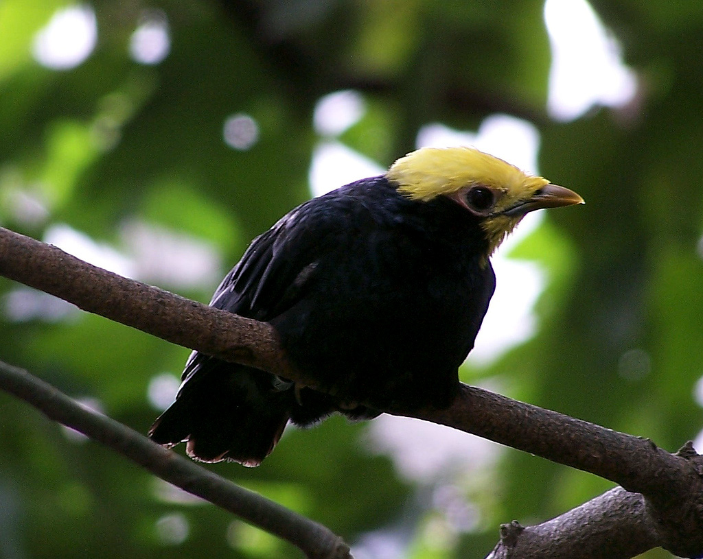 Golden-crowned Myna Ampeliceps coronatus, Hong Kong zoo